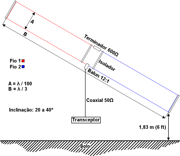 Constructive details of the T2FD antenna.